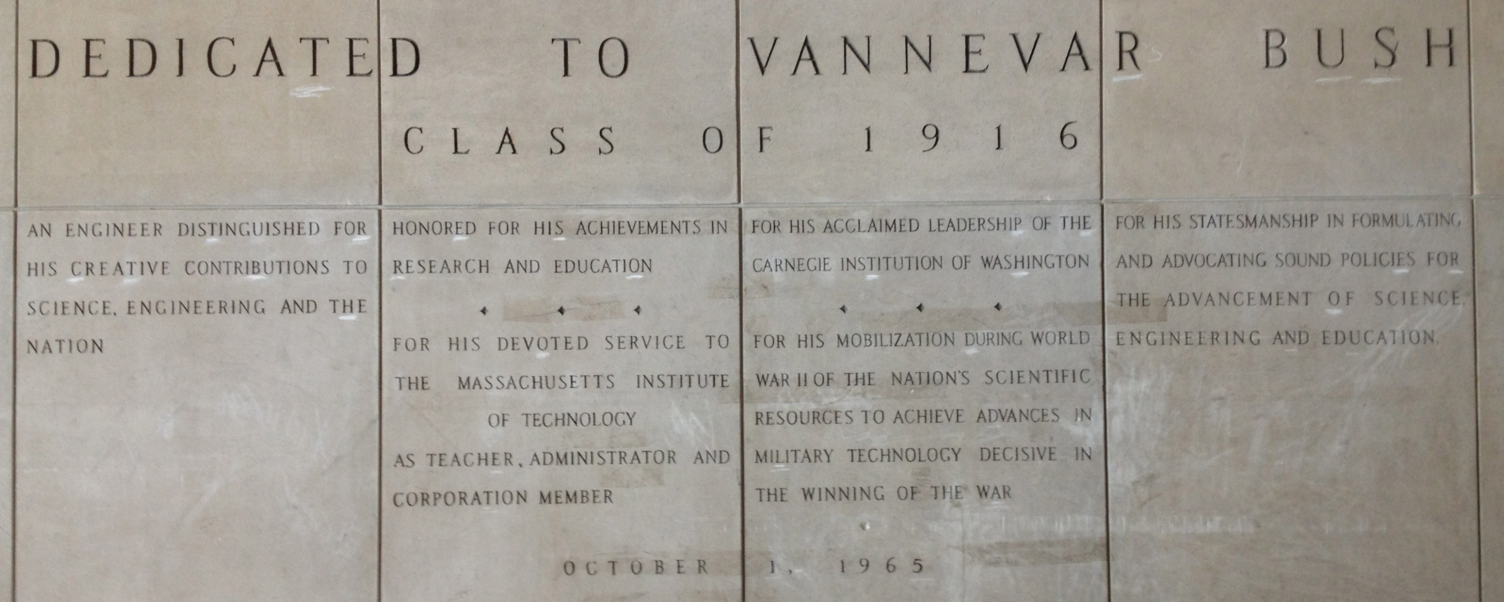 Photo of wall in lobby of the building, for use in article Vannevar Bush